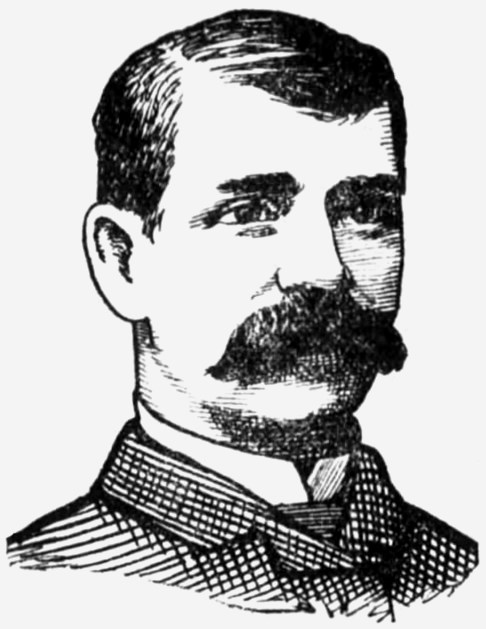 An illustration of professional baseball player Jim Clinton